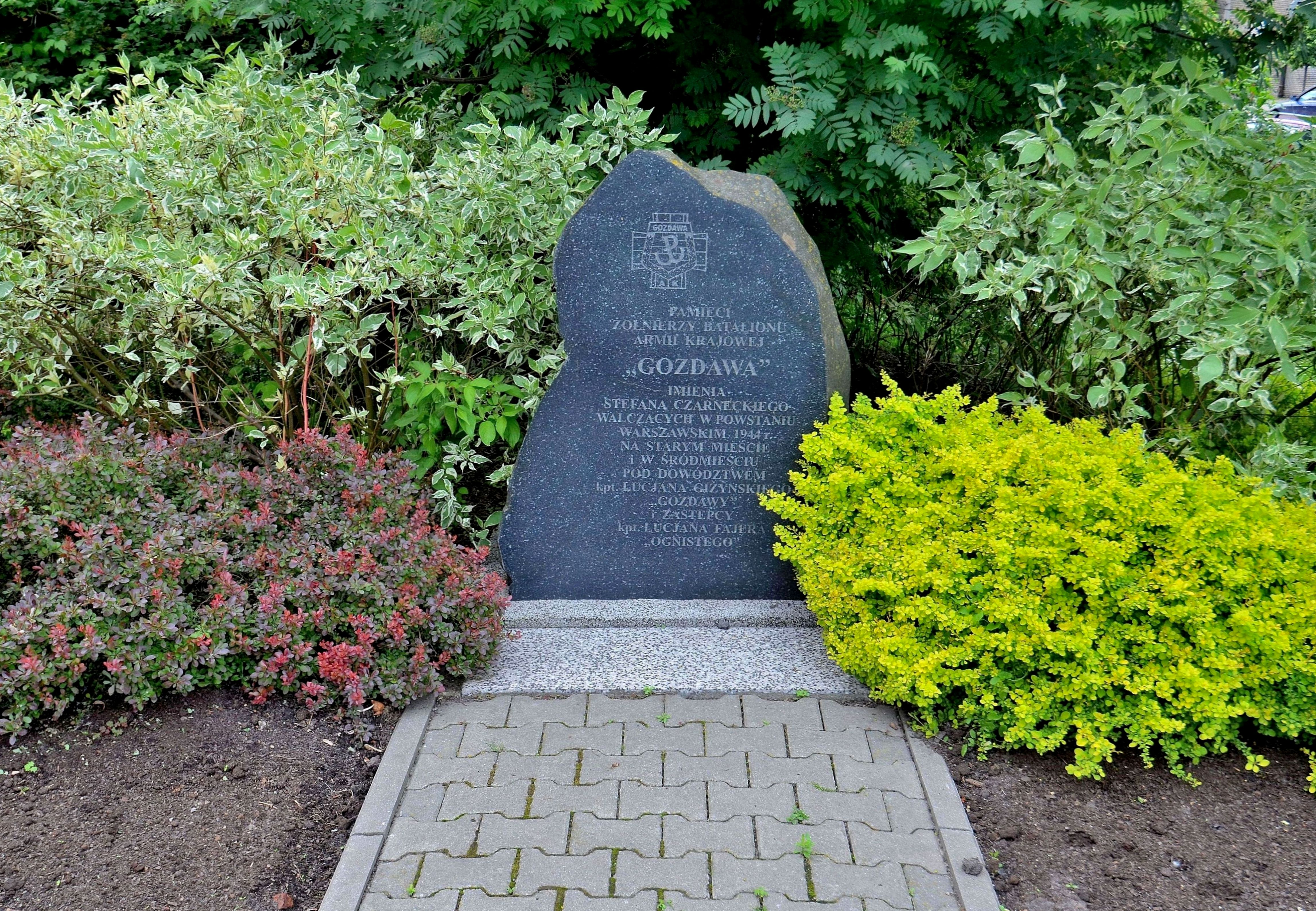 Plaque commemorating Gozdawa Batallion at the intersection of Zakroczymska and Konwiktorska Streets in Warsaw